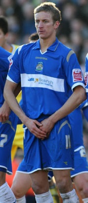 County Stars Anthony Pilkington, Carl Baker, Stephen Gleeson & Tommy Rowe Line-Up In A Wall Against Leeds United In Dec 2008.